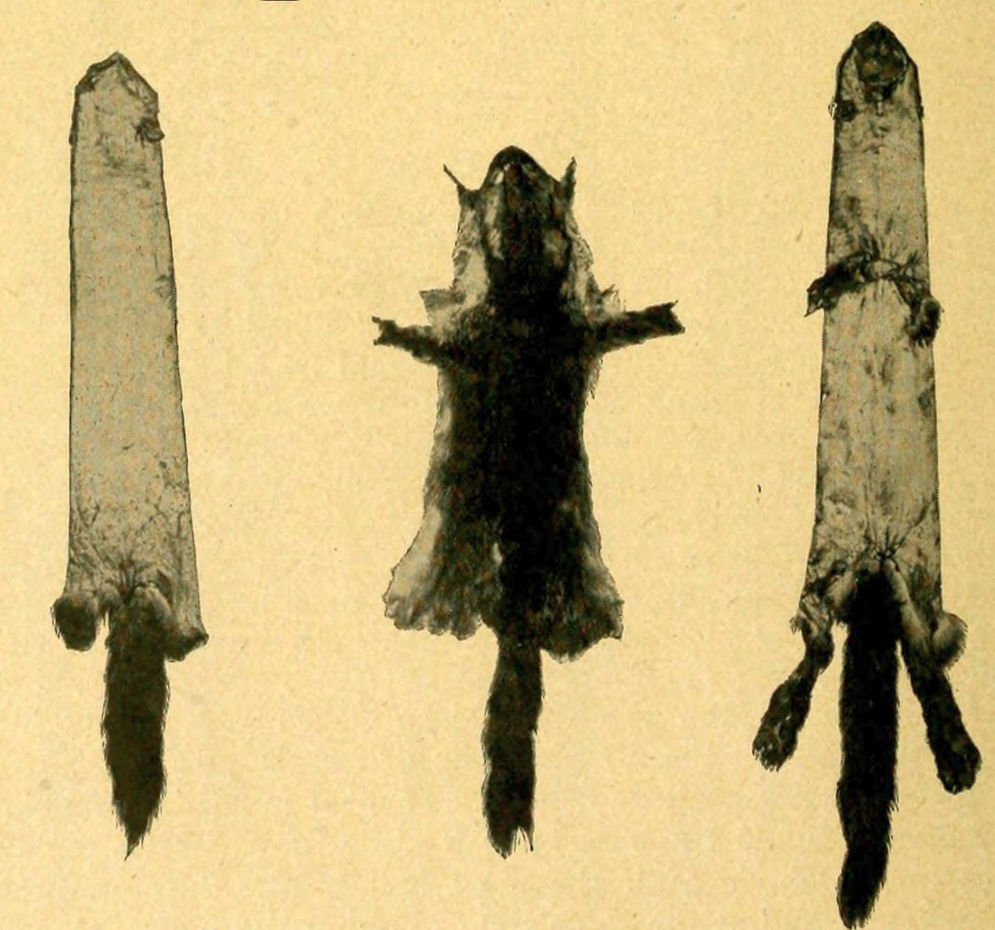 Title: Andersch bros. hunters and trappers guide illustrating the fur bearing animals of North America the skins of which have a market value Year: 1906 (1900s) Authors: [from old catalog]; [from old catalog] Subjects: Hunting; [from old catalog]; Game laws Publisher: [Minneapolis, Minn. , Press of Kimball-Storer co. ] Text Appearing Before Image: ' Text Appearing After Image: Upper Row Mink Skins MINK and MARTEN SKINS Center Marten Skins Improperly Skinned Low Row Marten Skins